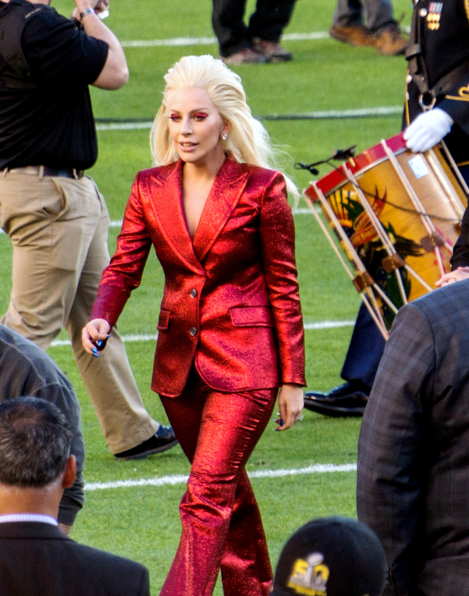 Lady Gaga after performing the National Anthem at Super Bowl 50